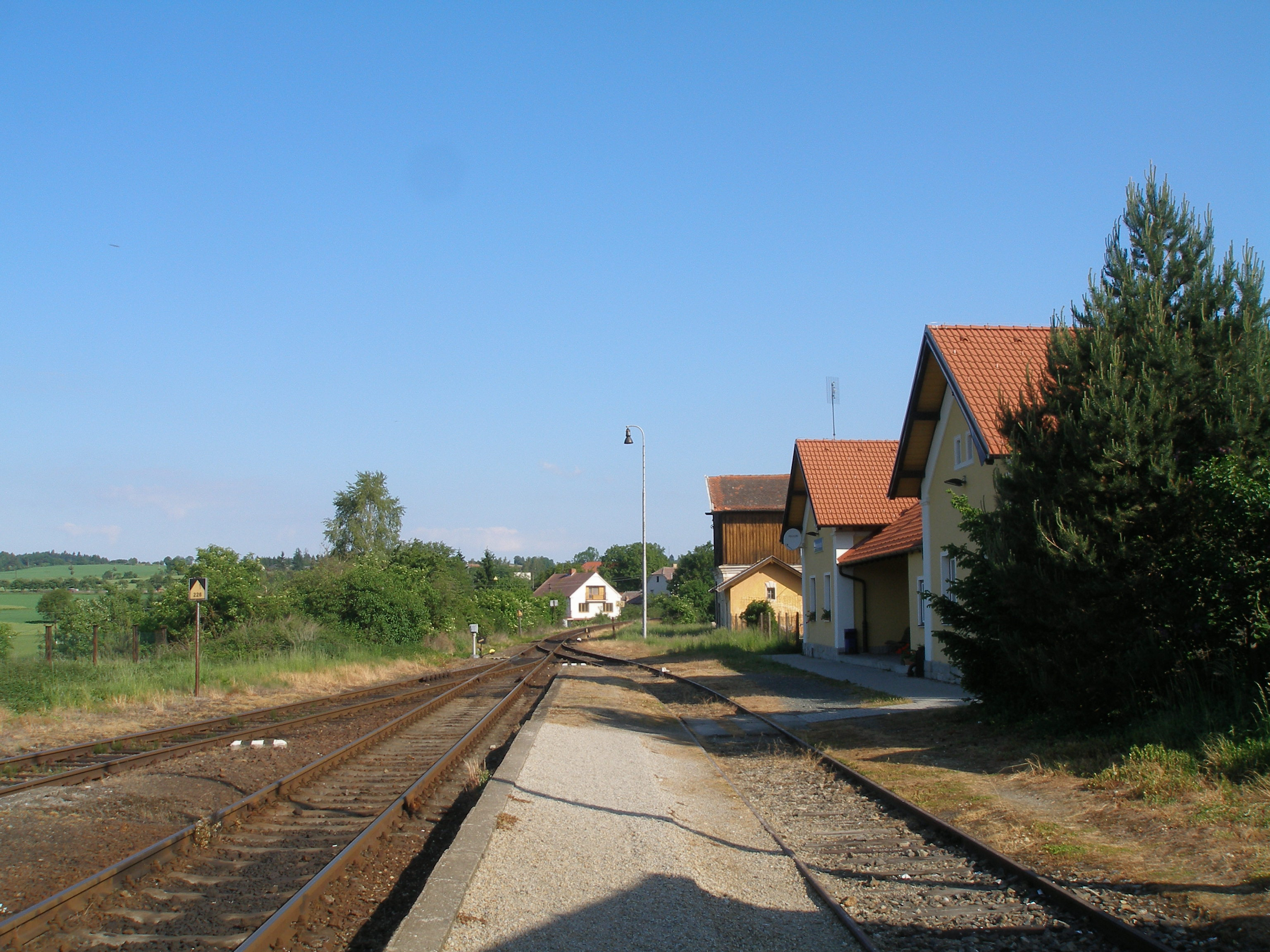 Kasejovice - the railway station